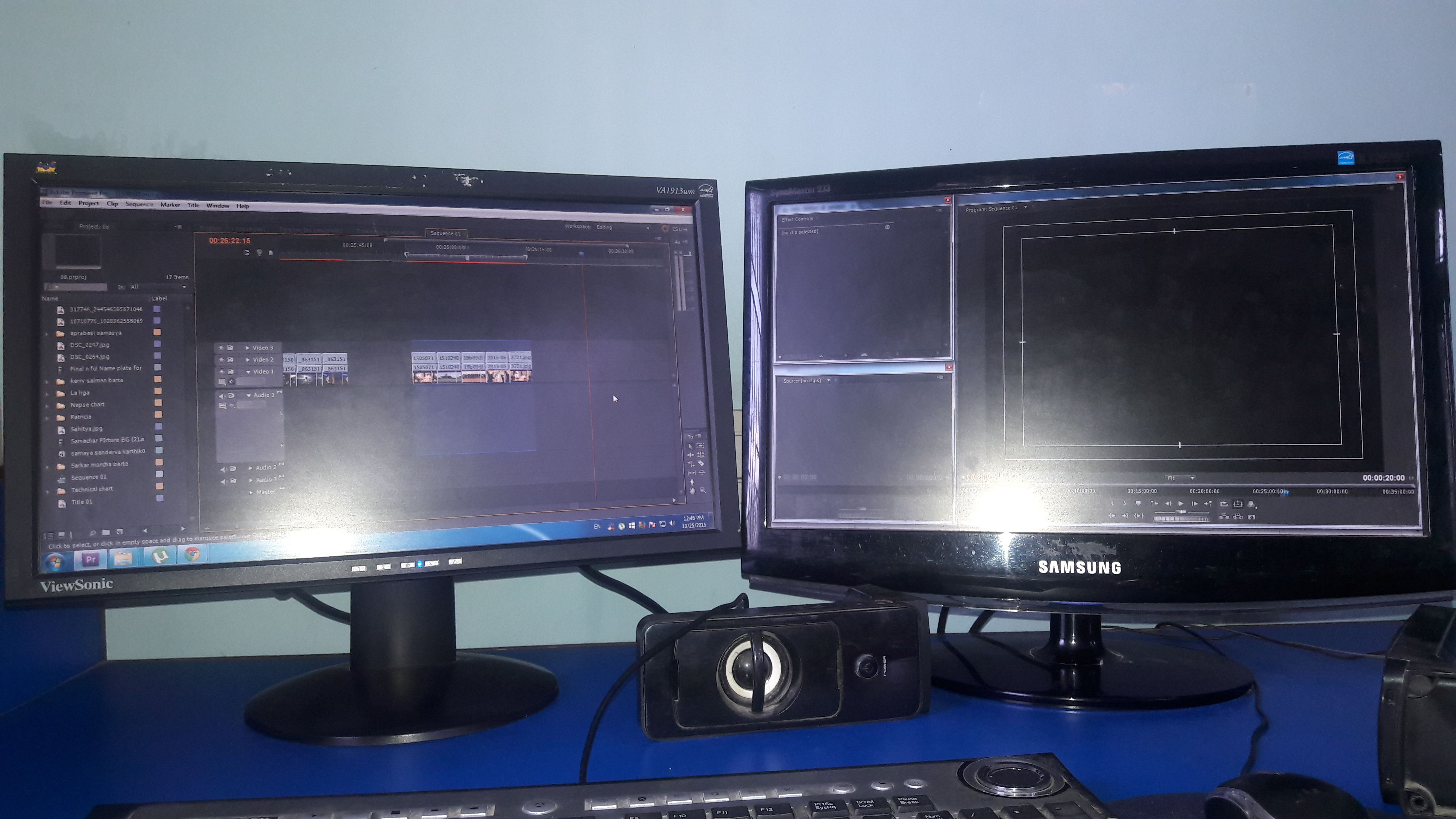 Adobe Premiere Pro